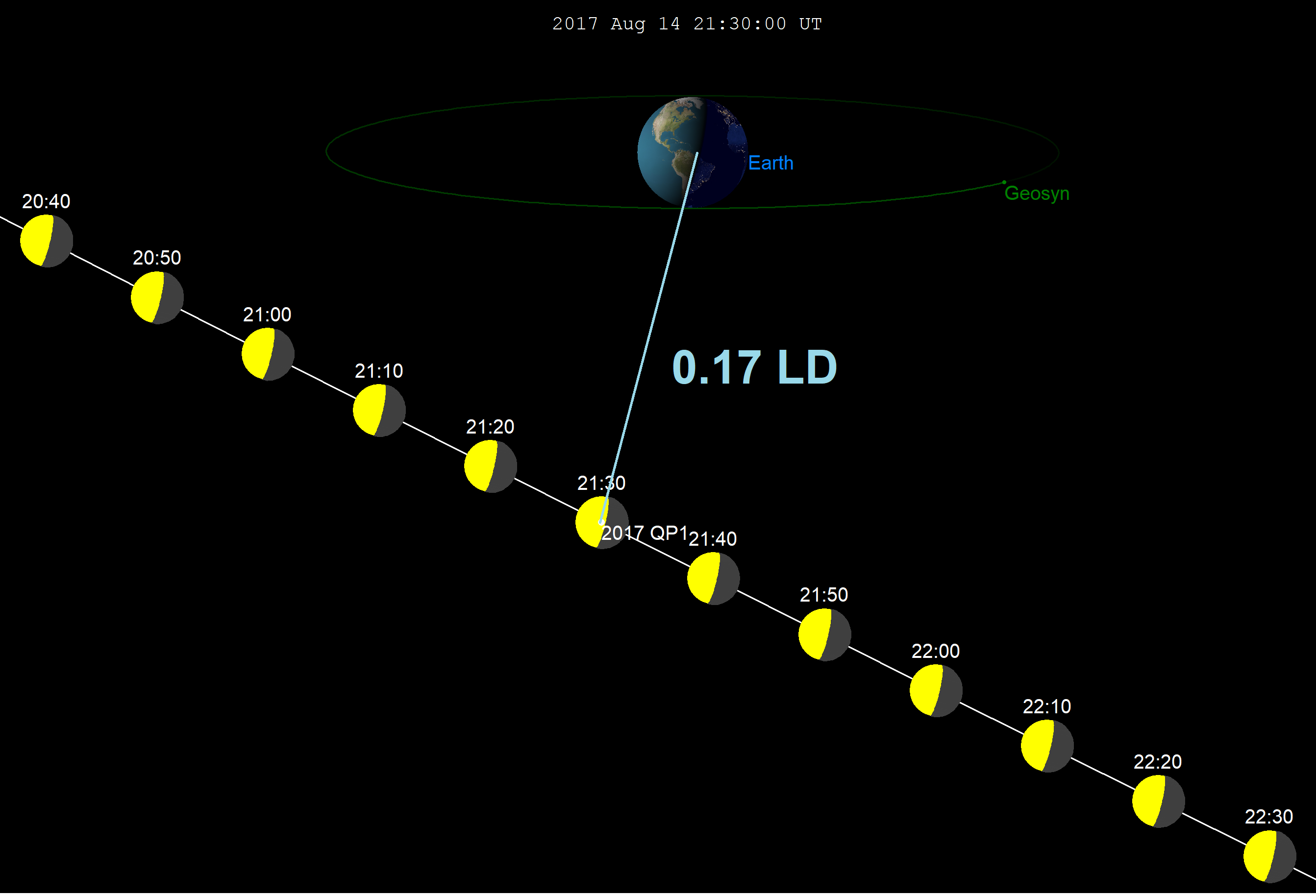 flyby on August 13, 2017, showing 10 minute movements past the earth and geosynchronous orbits in green